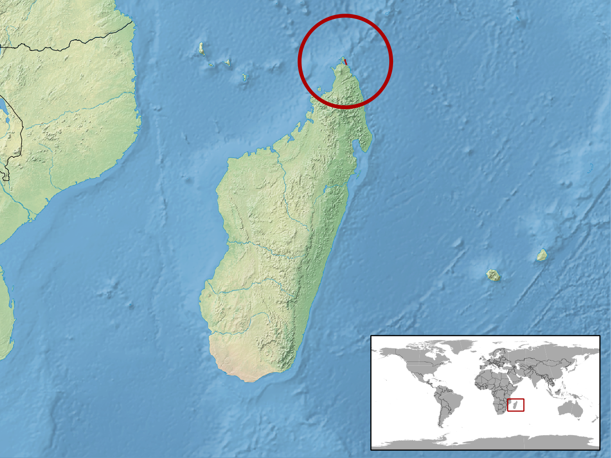 geographic distribution of Madascincus arenicola